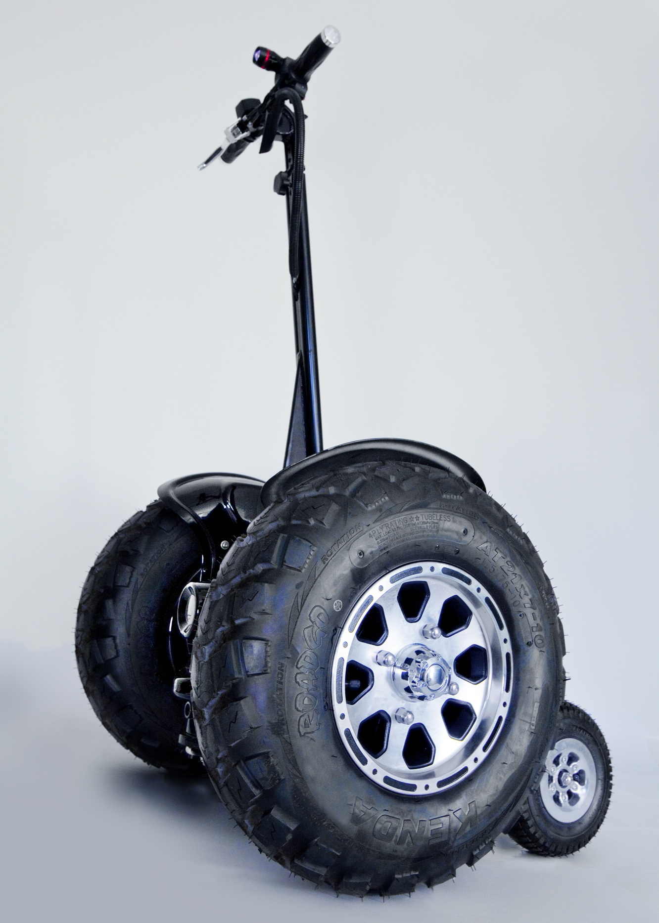 Eco-Zpeed 300 from the side.